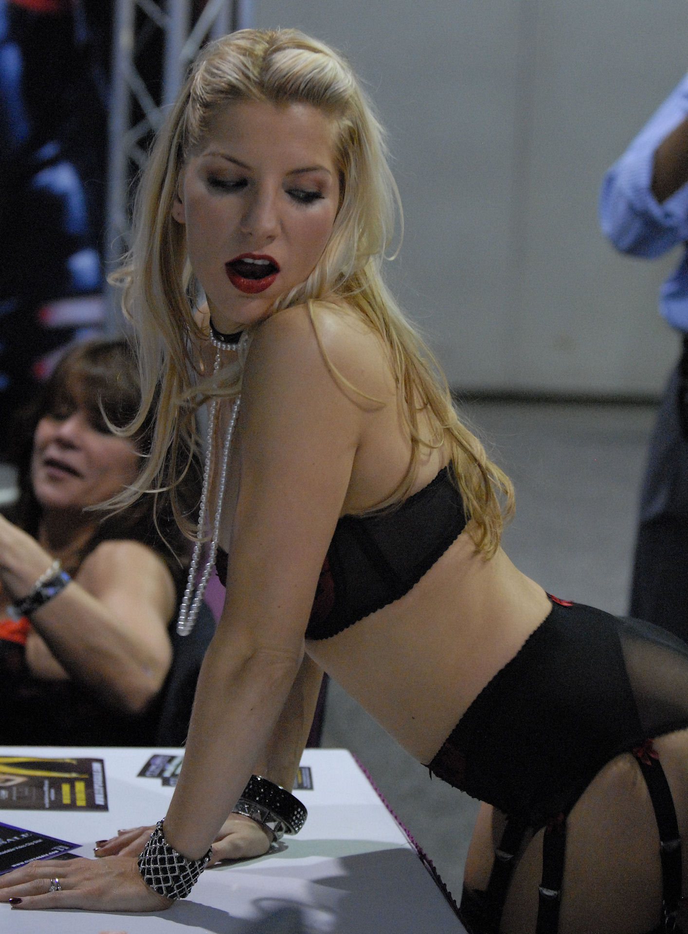 Ashley Fires AVN Adult Entertainment Expo 2010